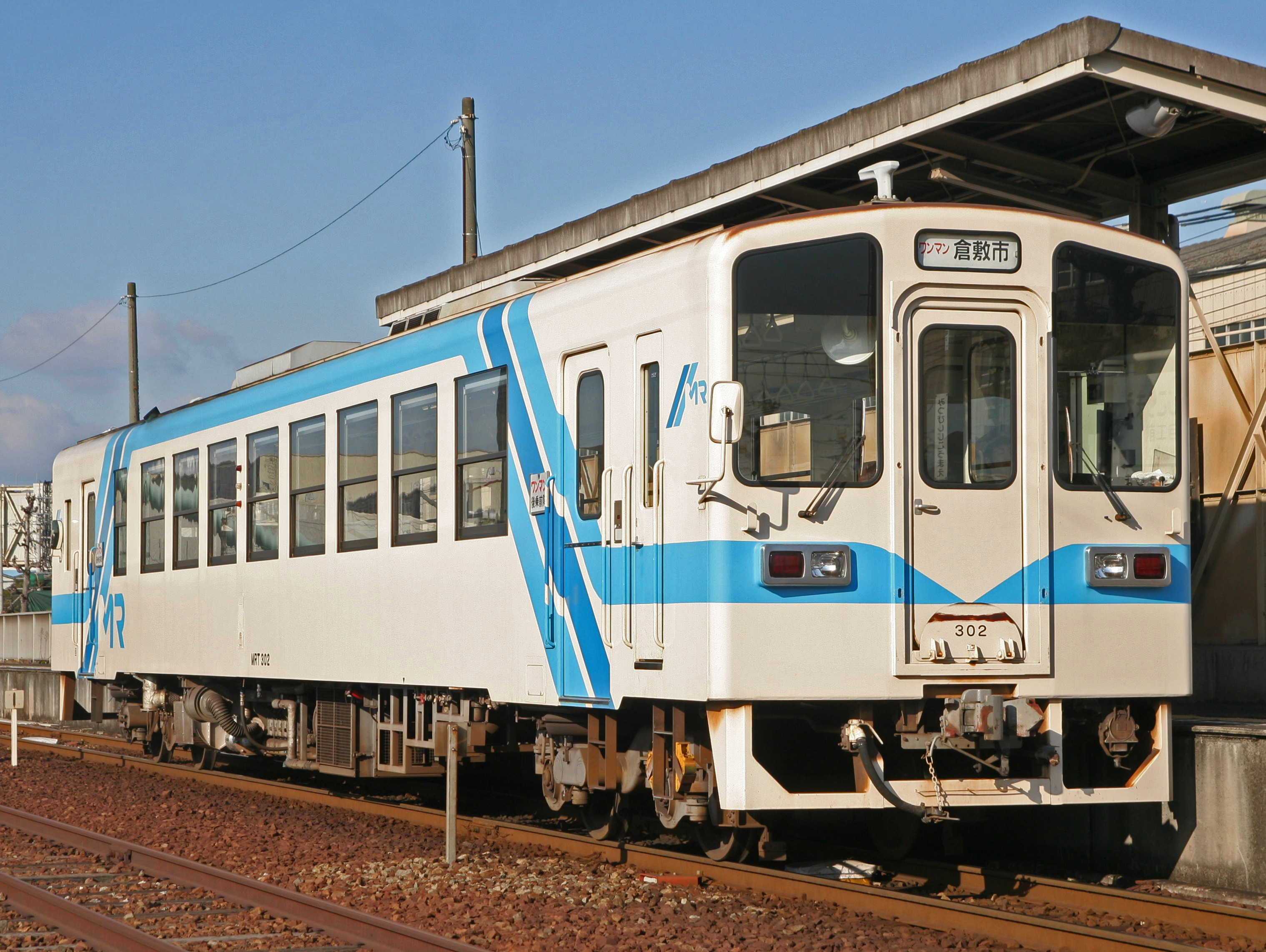 Mizushima Rinkai Railway MRT 300 series DMU at Mitsubishi Jiko-mae Station